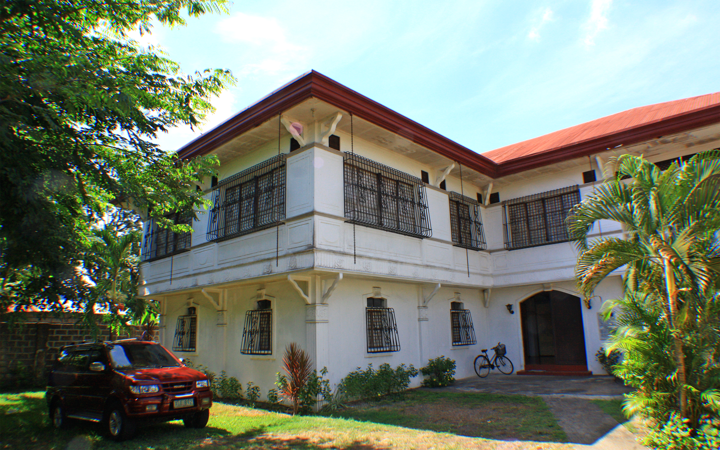 Marcelo H. Del Pilar National Shrine Museum-Library